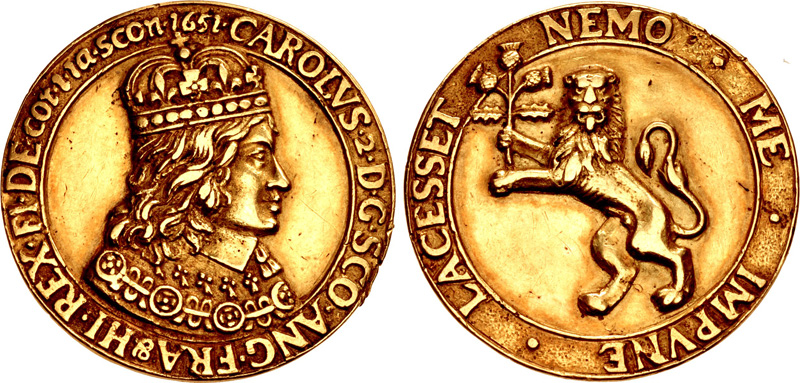 STUART. Charles II. 1660-1685. Cast AV Medal (31.5mm, 12.06 g, 12h). Coronation at Scone. By Sir James Balfour (per Cochran-Patrick). Dated 1651. MI 394/18; Eimer 183; Cochran-Patrick 1; Wollaston 4. Good VF, toned, minor edge marks. Extremely rare.